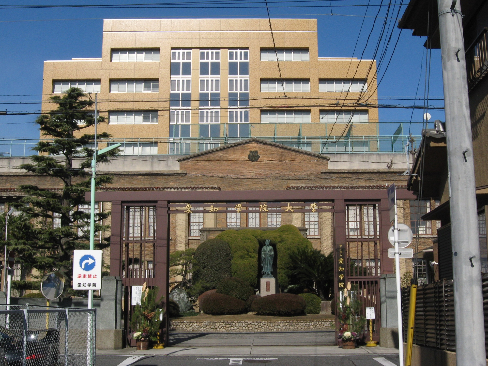 Aichi Gakuin University Kusumoto Campus (Main Gate, Corpotation Headquarters Building & School of Pharmacy)